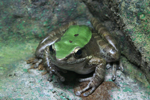 A green mountain frog, Doi Suthep variant (Thai: กบชะงอนผาเขียวดอยสุเทพ), or Odorrana livida, at the Chiang Mai Zoo Aquarium, Thailand, in January 2011. Picture taken by myself.